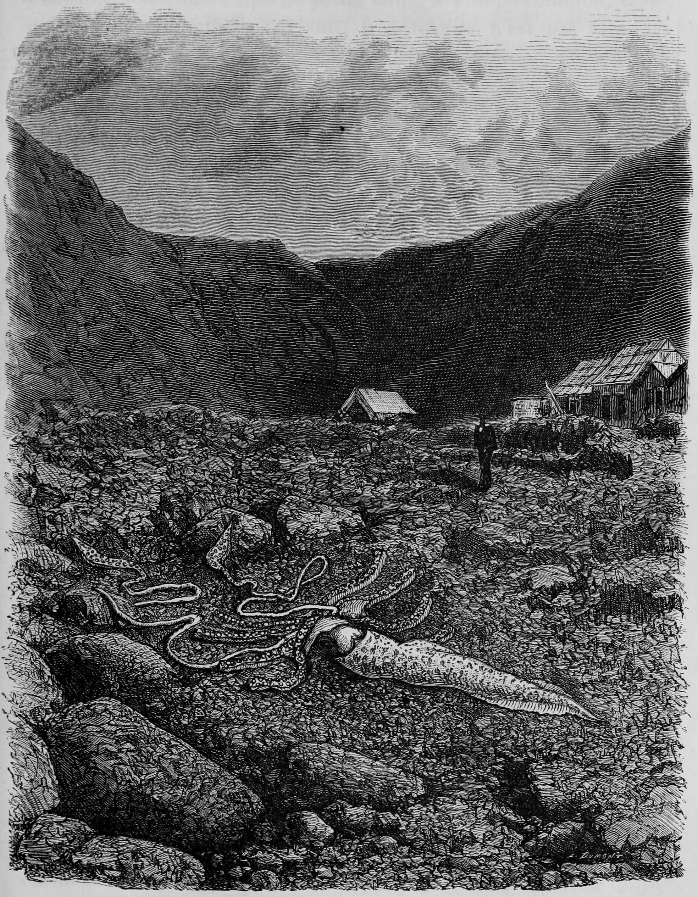 The giant squid that washed ashore on Île Saint-Paul on 2 November 1874, later described as Architeuthis mouchezi (nomen nudum) and Mouchezis sancti-pauli, and Ommastrephes mouchezi